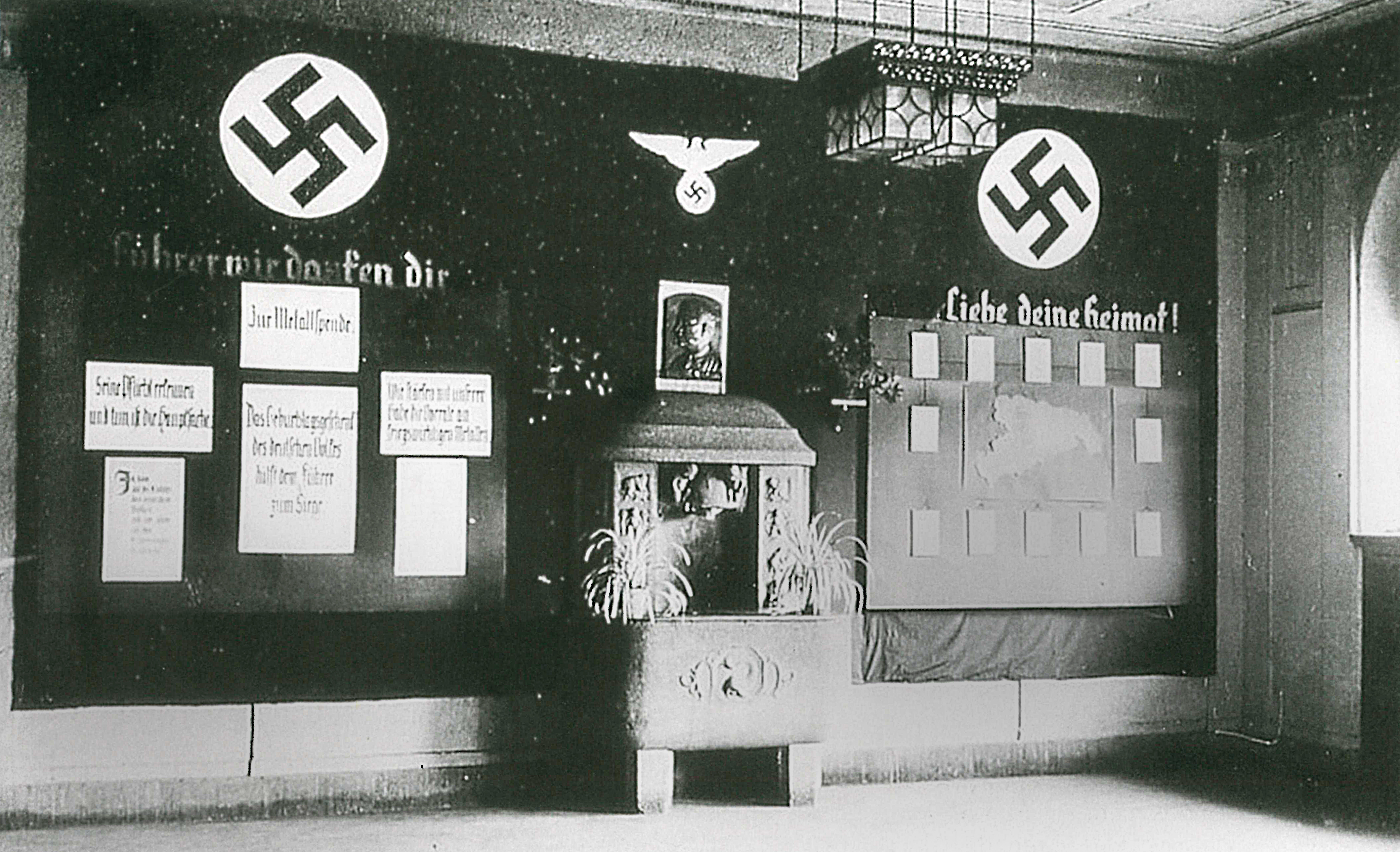 the entrance hall of the Johann-Wolfgang-von-Goethe-gymnasium Chemnitz during the time of the Nazi regime